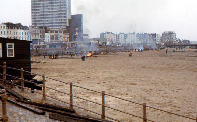 After the pier was badly damaged by storms in January 1978, the beach was littered with debris. Piles of it were collected up and burnt on the beach.